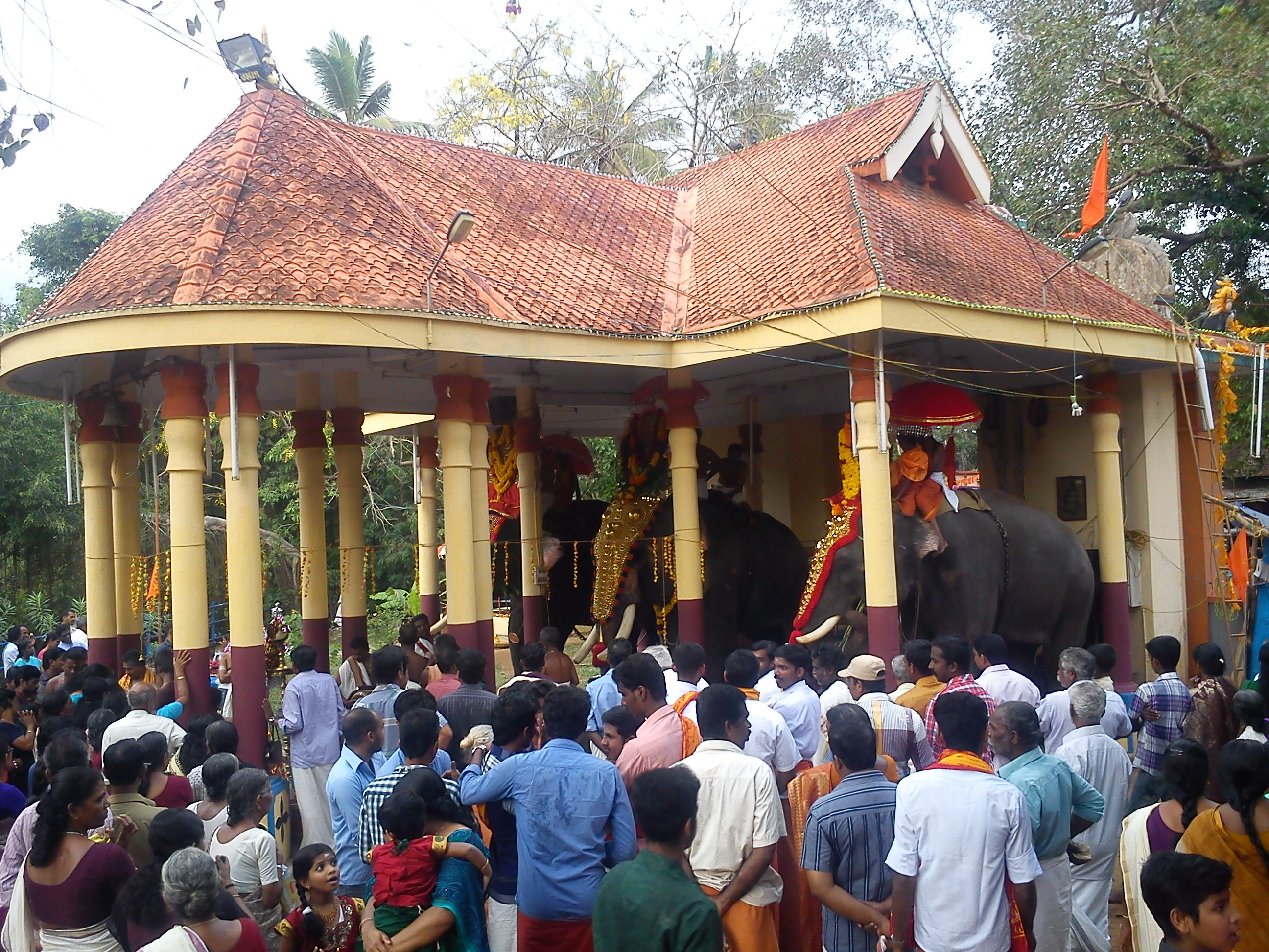 sivarathri uthsavam